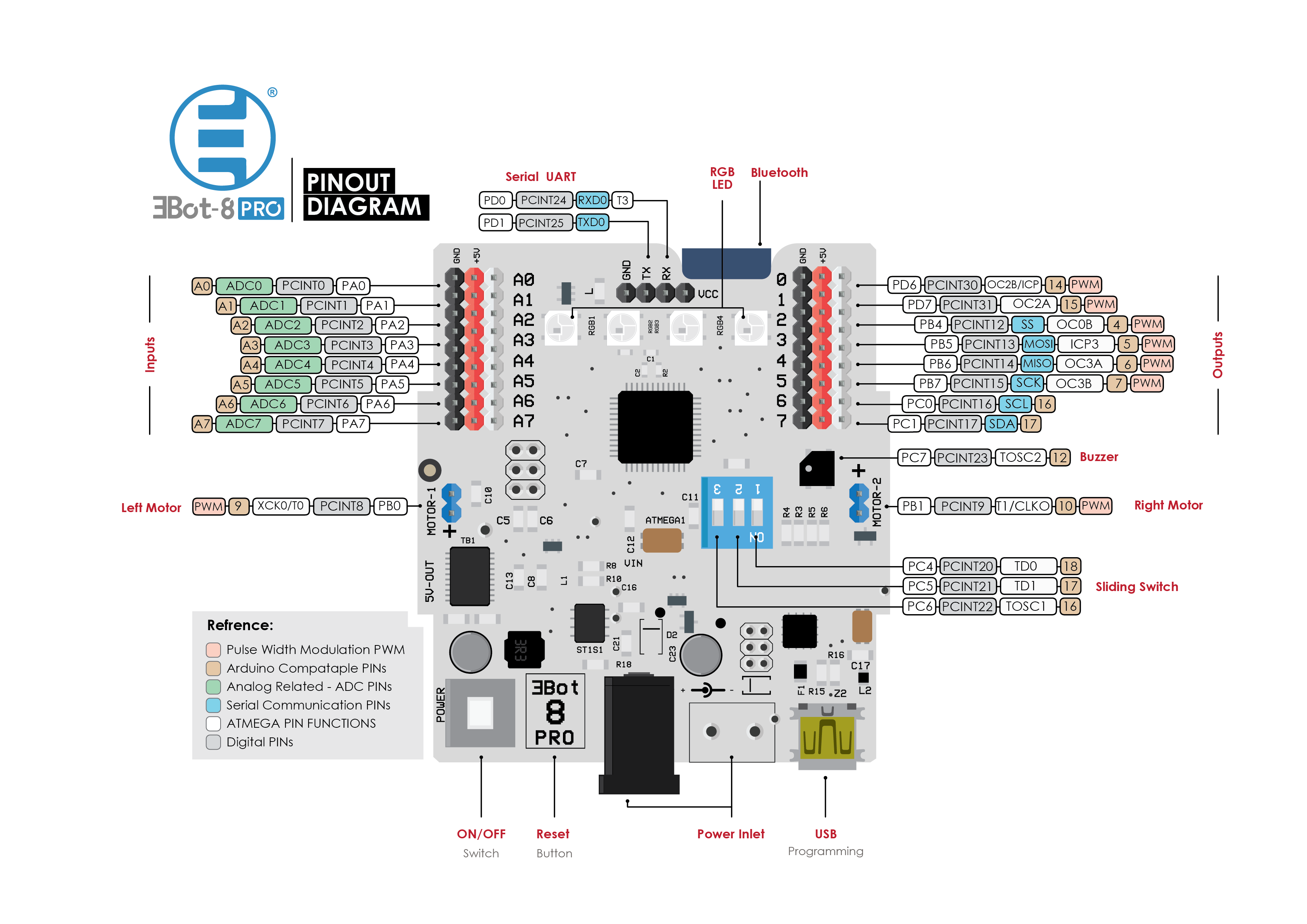 Ebot8-PRO Pinout